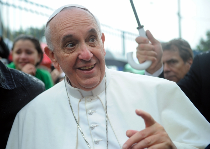 Pope Francis at Varginha in southwest Minas Gerais state, Brazil during WYD 2013